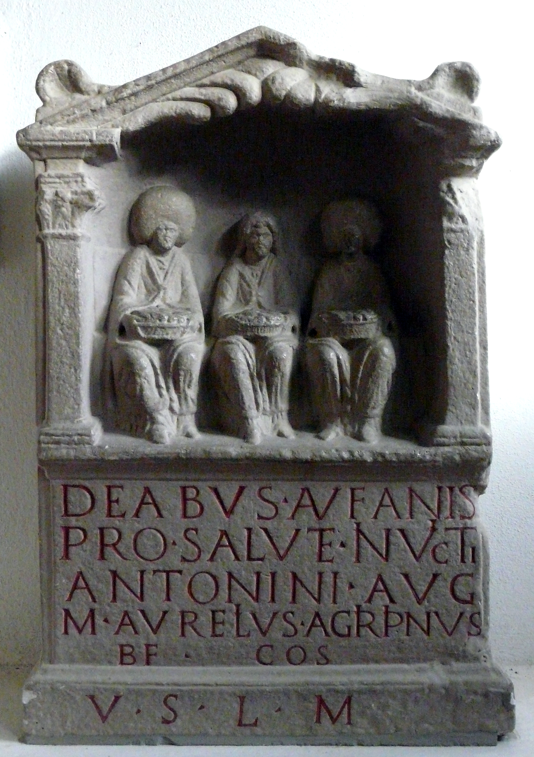 Roman-Germanic Matres and Matrones: Replica of an altar for the Mothers of Aufania (Matronae Aufaniae) from Nettersheim, Germany (around 211 – 217 AD; Saalburg Museum; CIL XIII, 11984 = D 09330 = Lehner 00278 = AE 1911, 156).